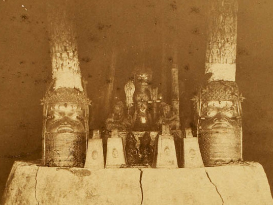 Earliest known photograph of Oba’s compound, Benin City, May 1891. Photo by Cyril Punch First published in Great Benin; its customs, art and horrors (1903) by H. Ling (Henry Ling) Roth (1854-1925)